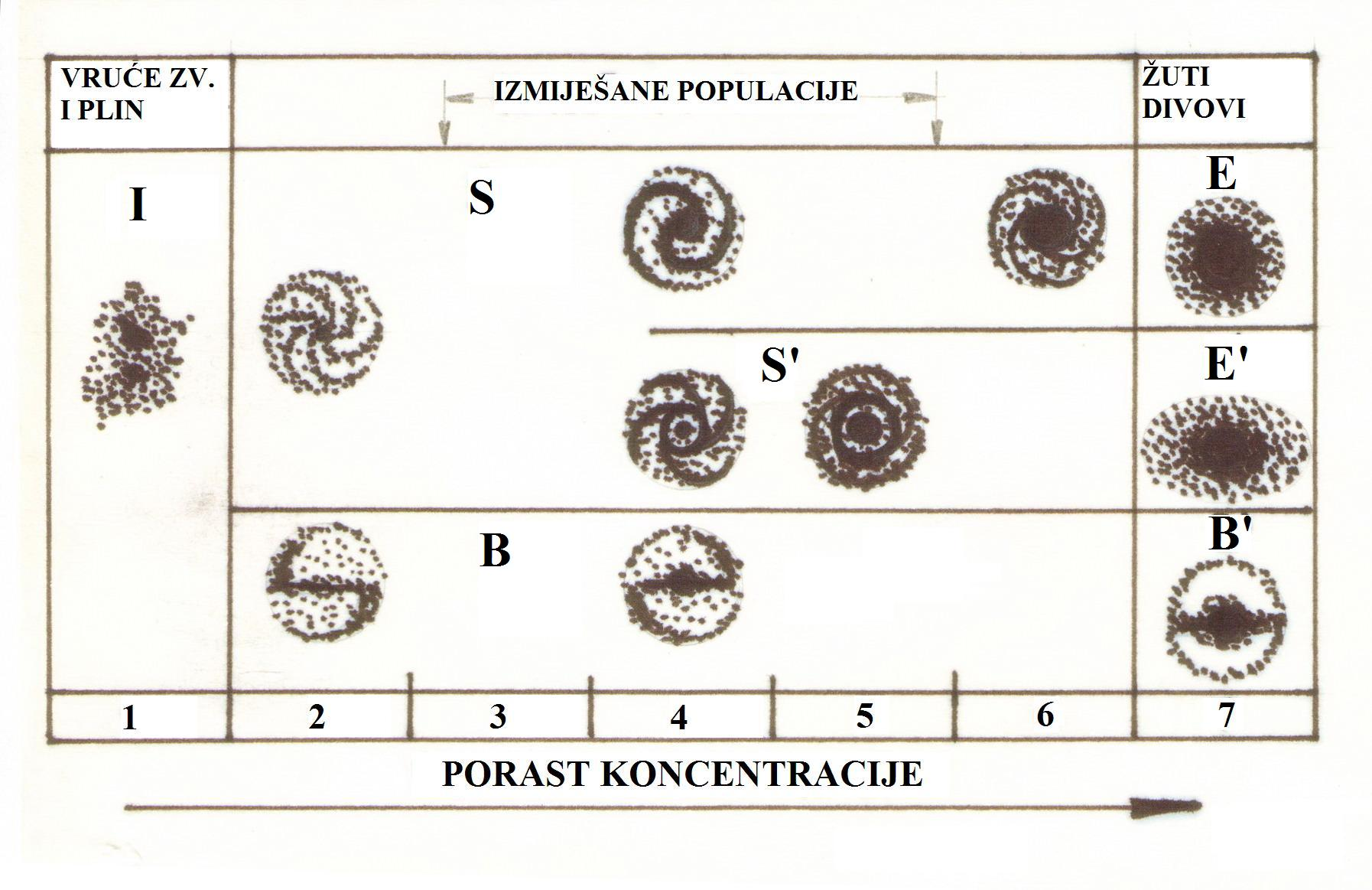 Morgan Galaxy Classification ĆScheme